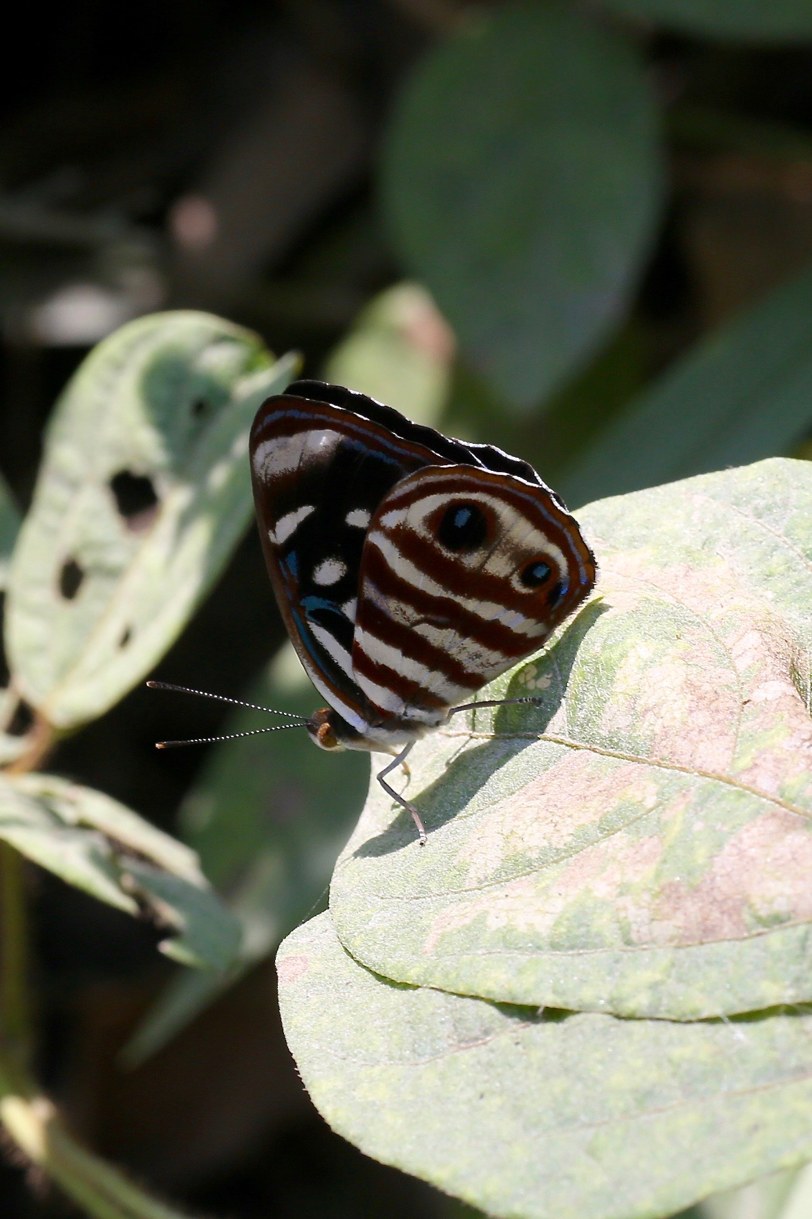 Ecuador, Napo Province, Puerto Misahuallí